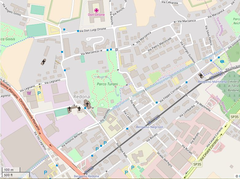 Bergamo, Redona e Martinella This map may be incomplete, and may contain errors. Don't rely solely on it for navigation.